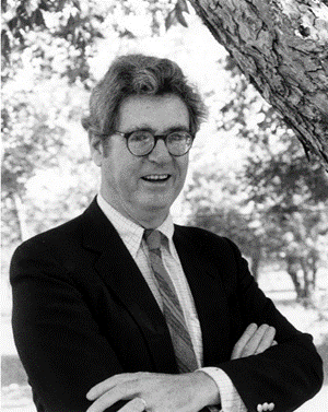 Photograph of Prof. Kevin C. A. Burke taken at the Lunar and Planetary Institute, Houston, TX, in the middle 1980s. Photo provided courtesy of Lunar and Planetary Institute.